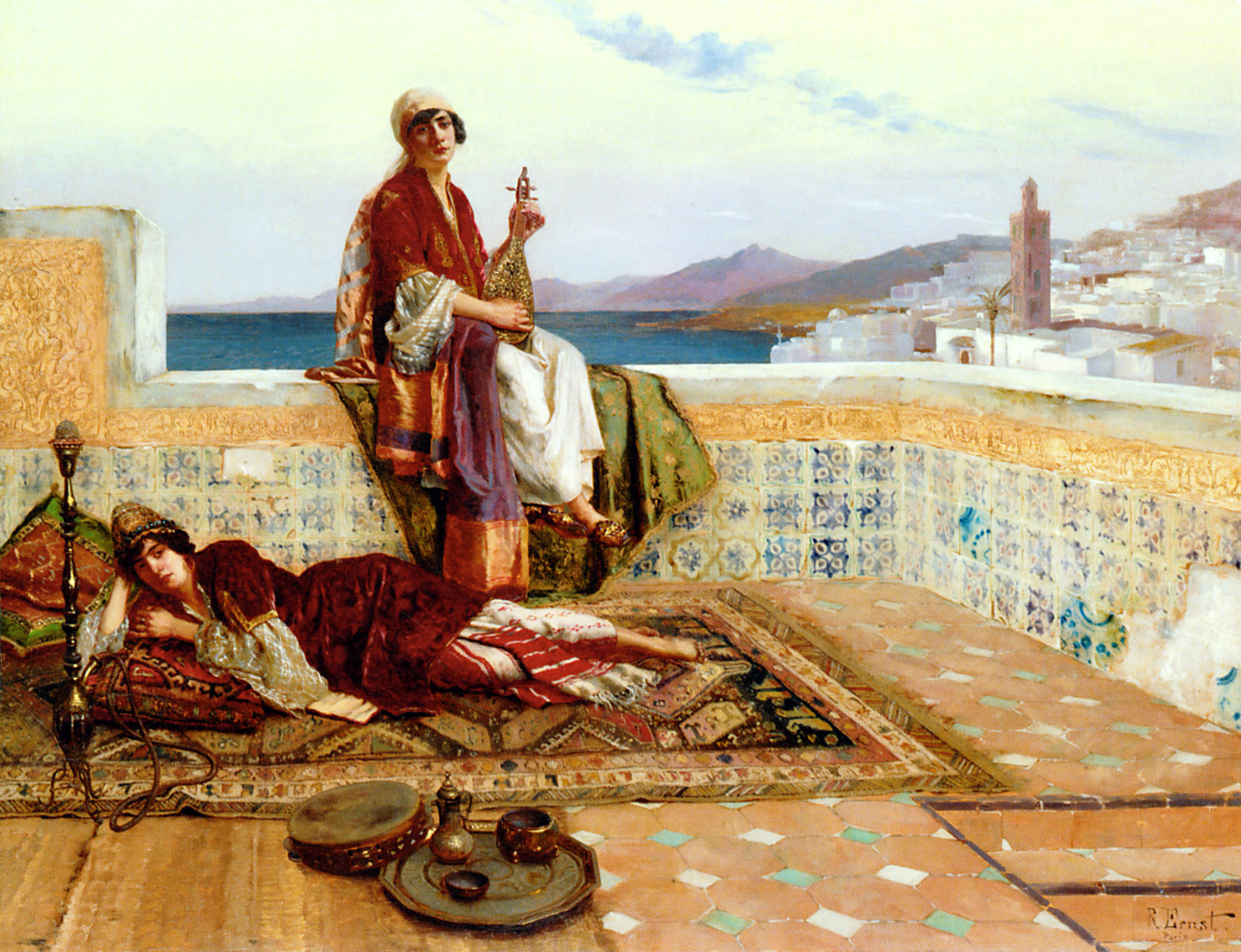 Young ladies on a terrace in Tangiers